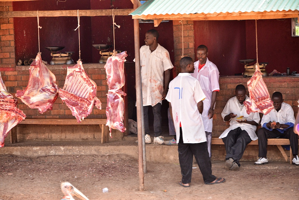 Uganda